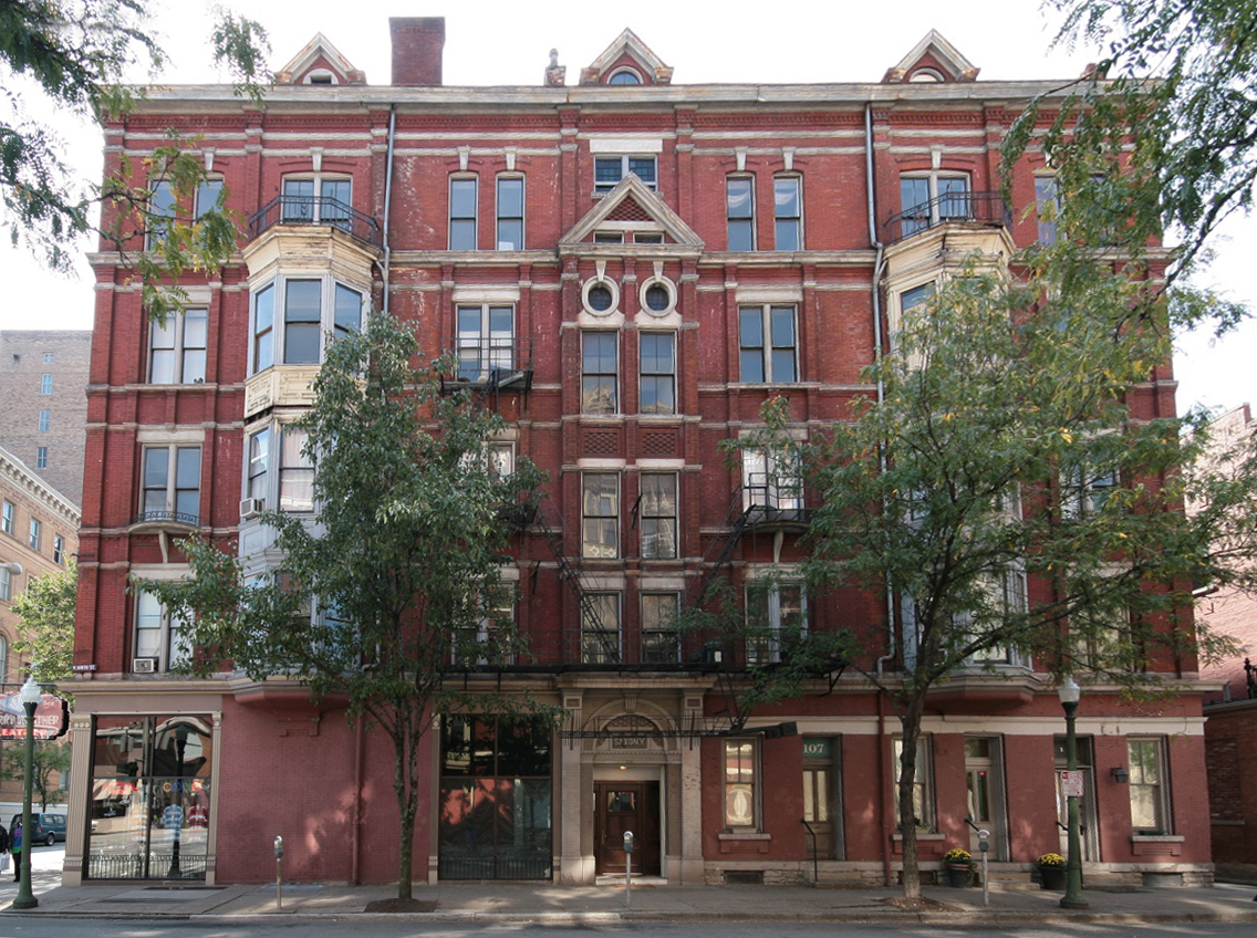 Saxony Apartment building in Cincinnati, OH. Photo by Greg Hume